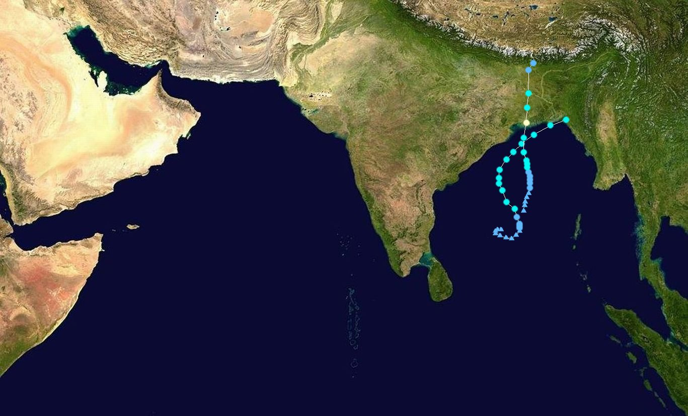 North Indian Ocean tropical cyclone season summary